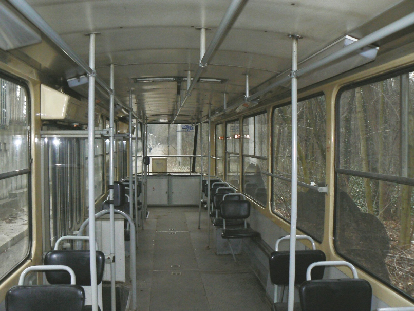 A tramway inside